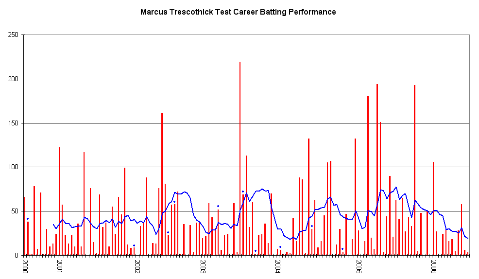 This graph details the Test Match performance of Marcus Trescothick. It was created by Raven4x4x. The red bars indicate the player's test match innings, while the blue line shows the average of the ten most recent innings at that point. Note that this average cannot be calculated for the first nine innings. The blue dots indicate innings in which Trescothick finished not-out. This graph was generated with Microsoft Excel 2002, using data from Cricinfo [1] and Howstat [2].